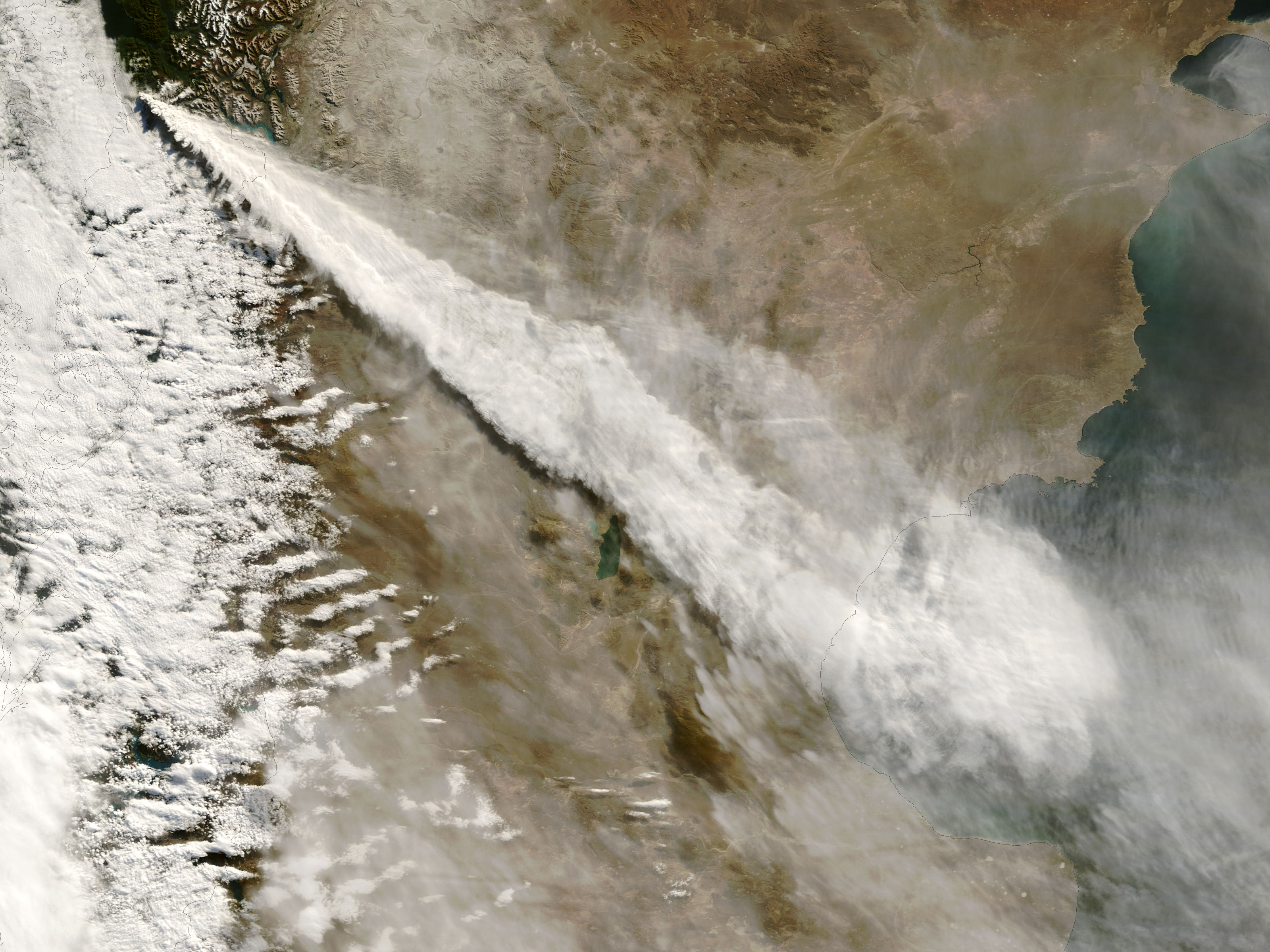 Plume from eruption of Chaiten volcano, Chile, seen from MODIS on the Terra satellite at 2008/05/03 at 14:35 UTC. Scale: 1px=250m